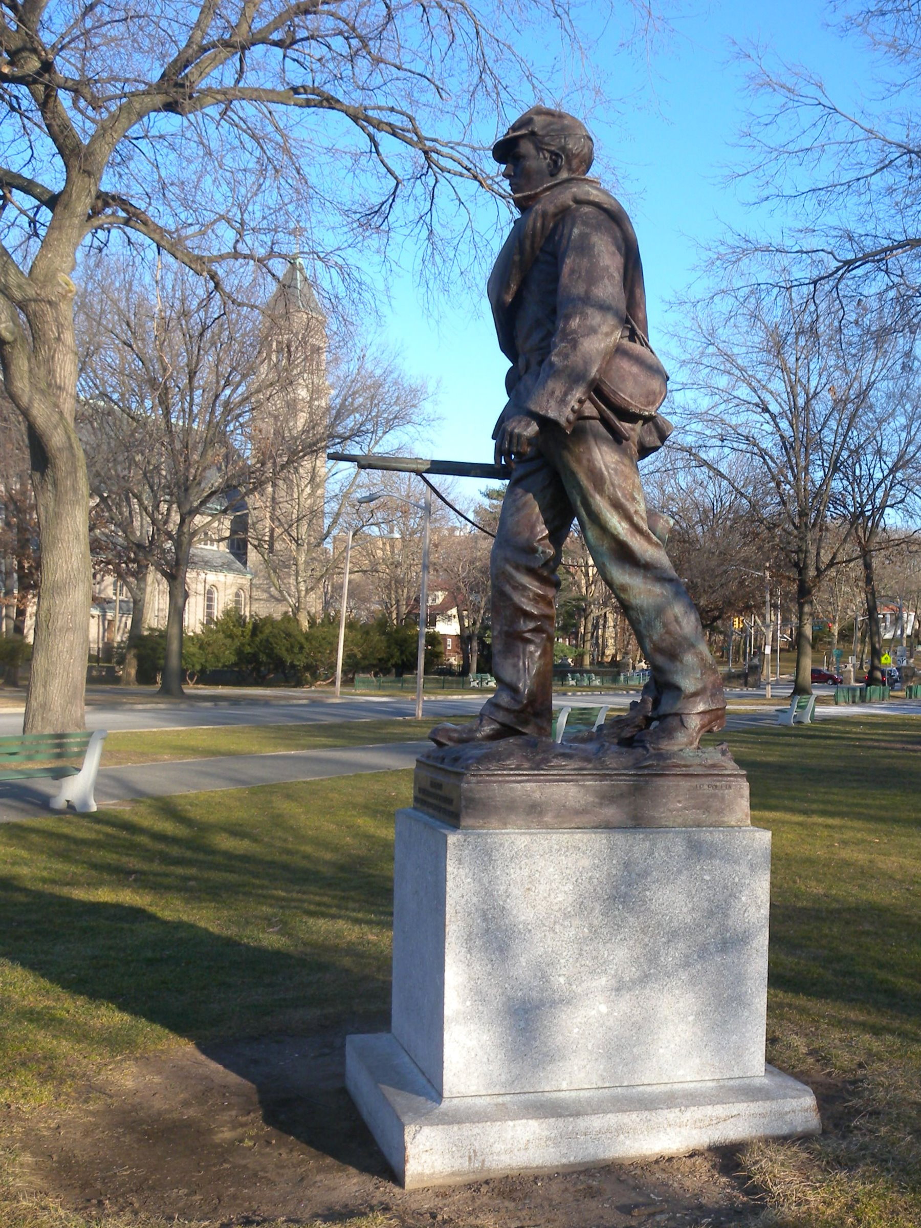 Looking east at statue on a sunny afternoon. See Historical Marker Database